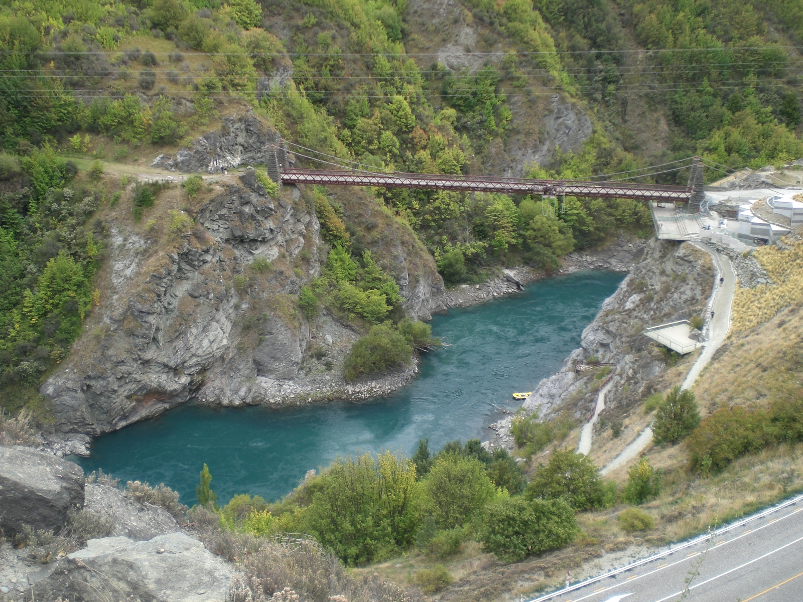 Author Mat Cross. Taken 10:35, 30 Mar 2007.